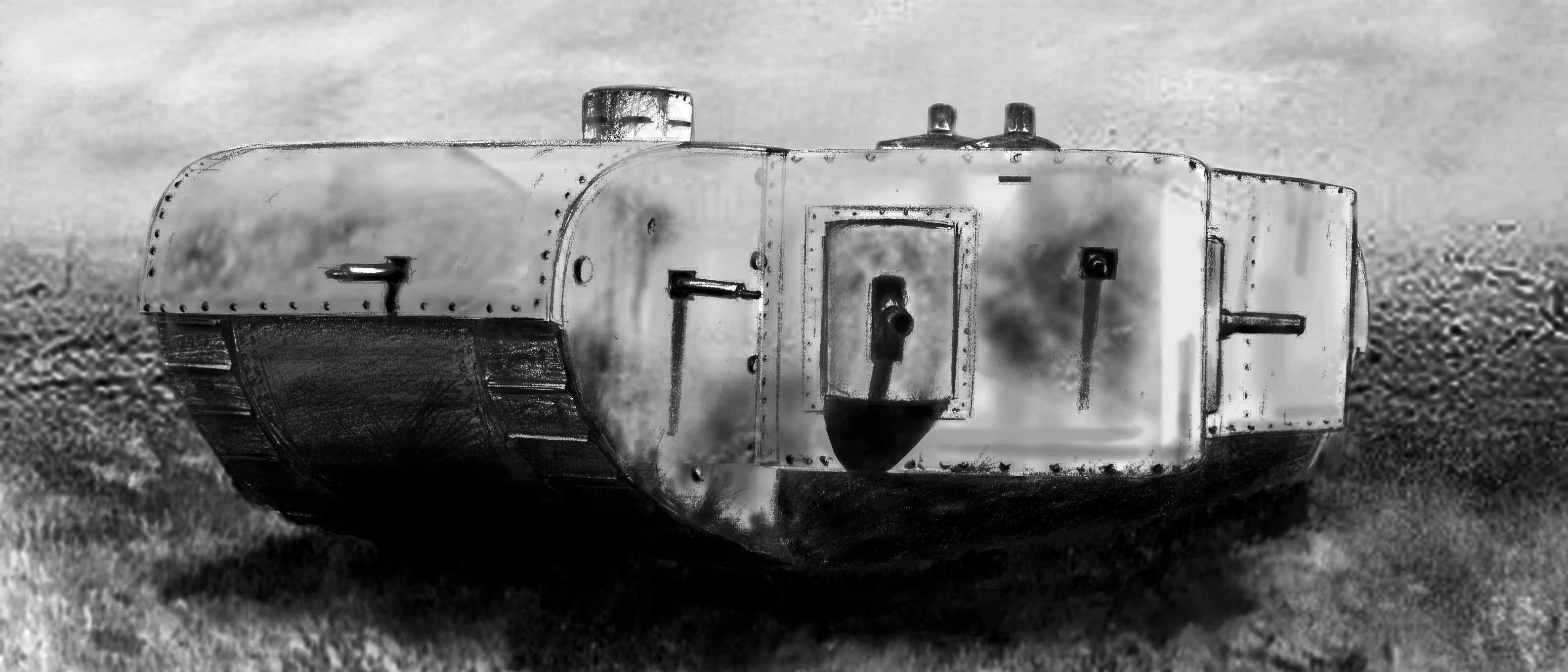 The german super-heavy tank "K-Wagen".